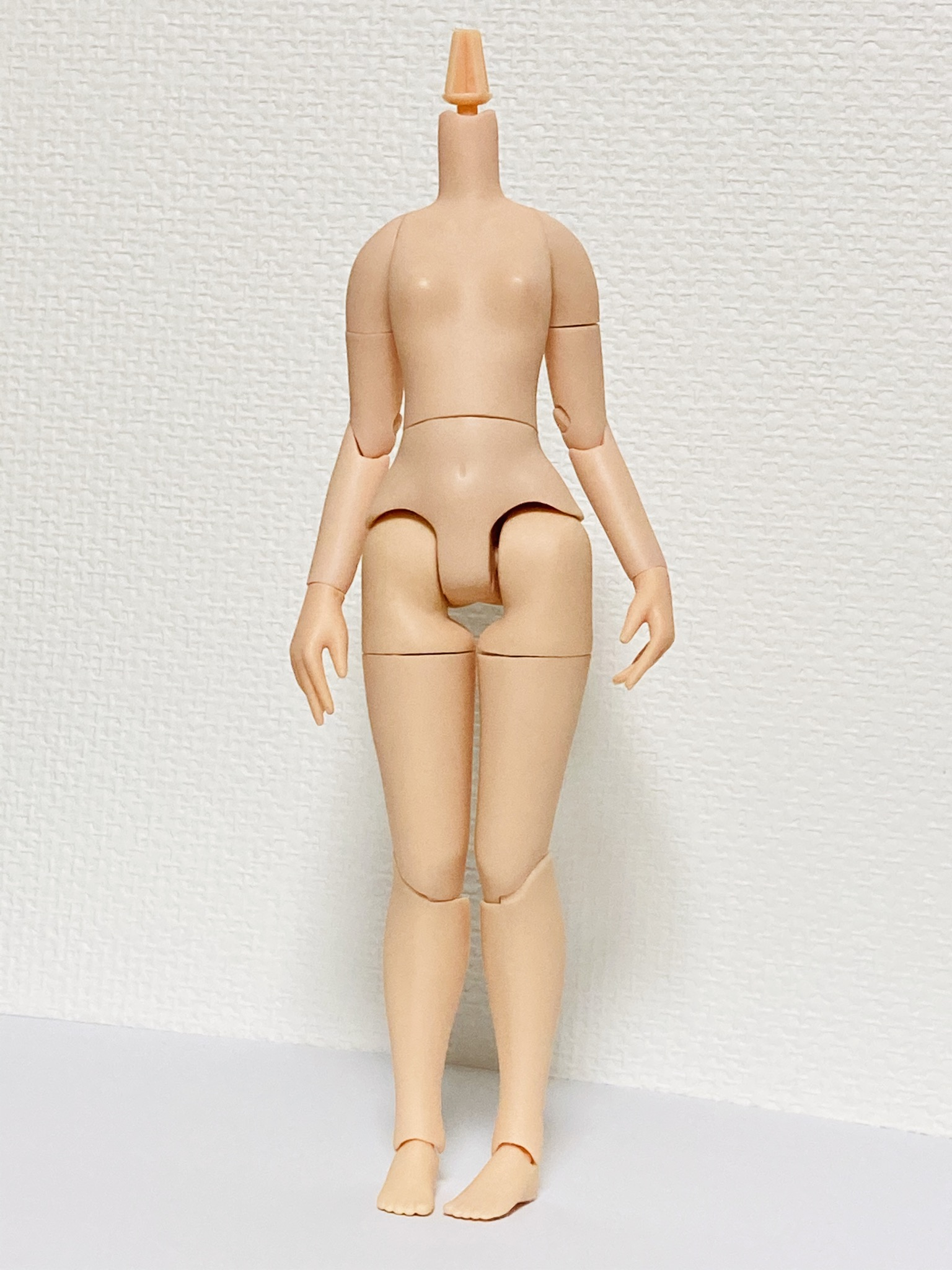 Azone Pureneemo Flection S flesh